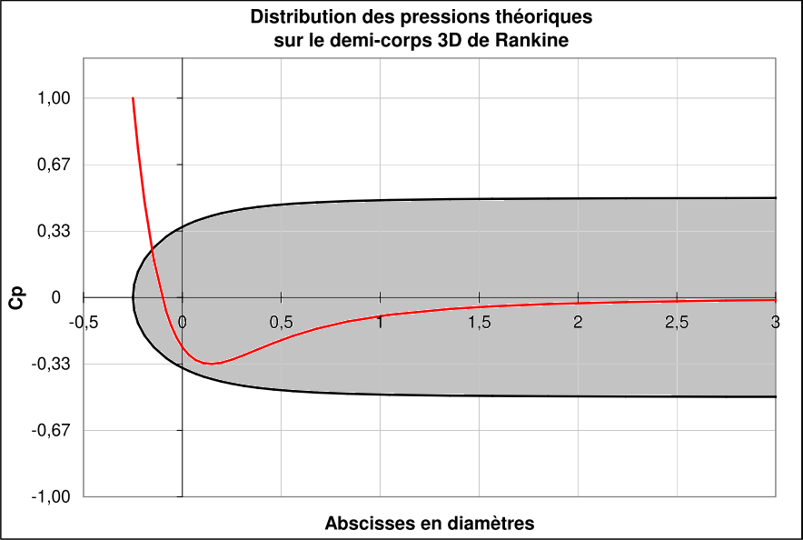 Theoretical pressure distribution (Cp) on a 3D Rankine half body. These Cp are calculated in inviscid potential flow.